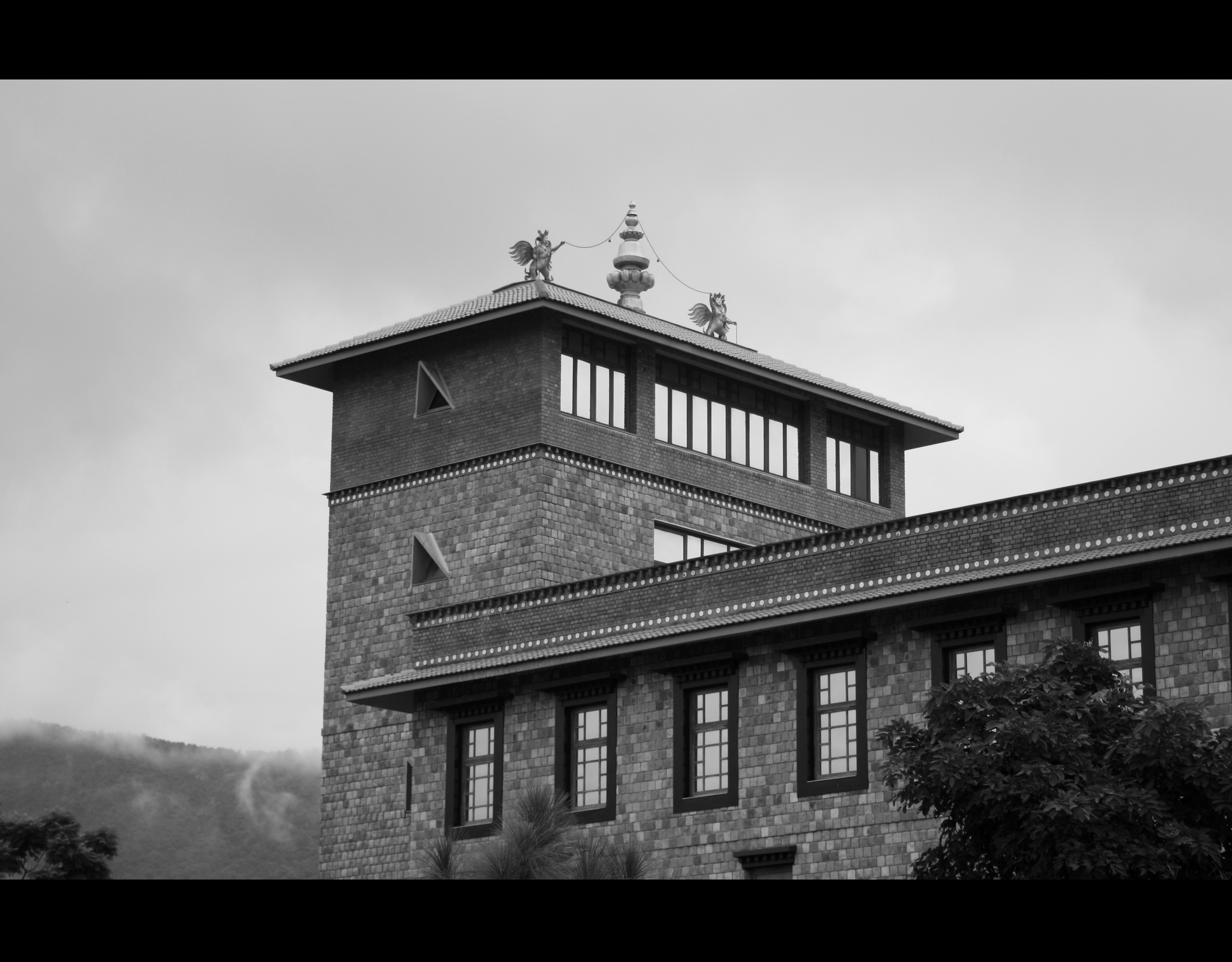 Located at Dehradun, in Uttaranchal , Songtsen Library collects, preserves and makes accessible ancient Tibetan and Himalayan religious, cultural and historical documents. It is named after King Songtsen Gampo, the 33rd Tibetan king. The library houses statutes of Trisong Deutsen, Songtsen Gompo and Ralpachen, three religious kings.